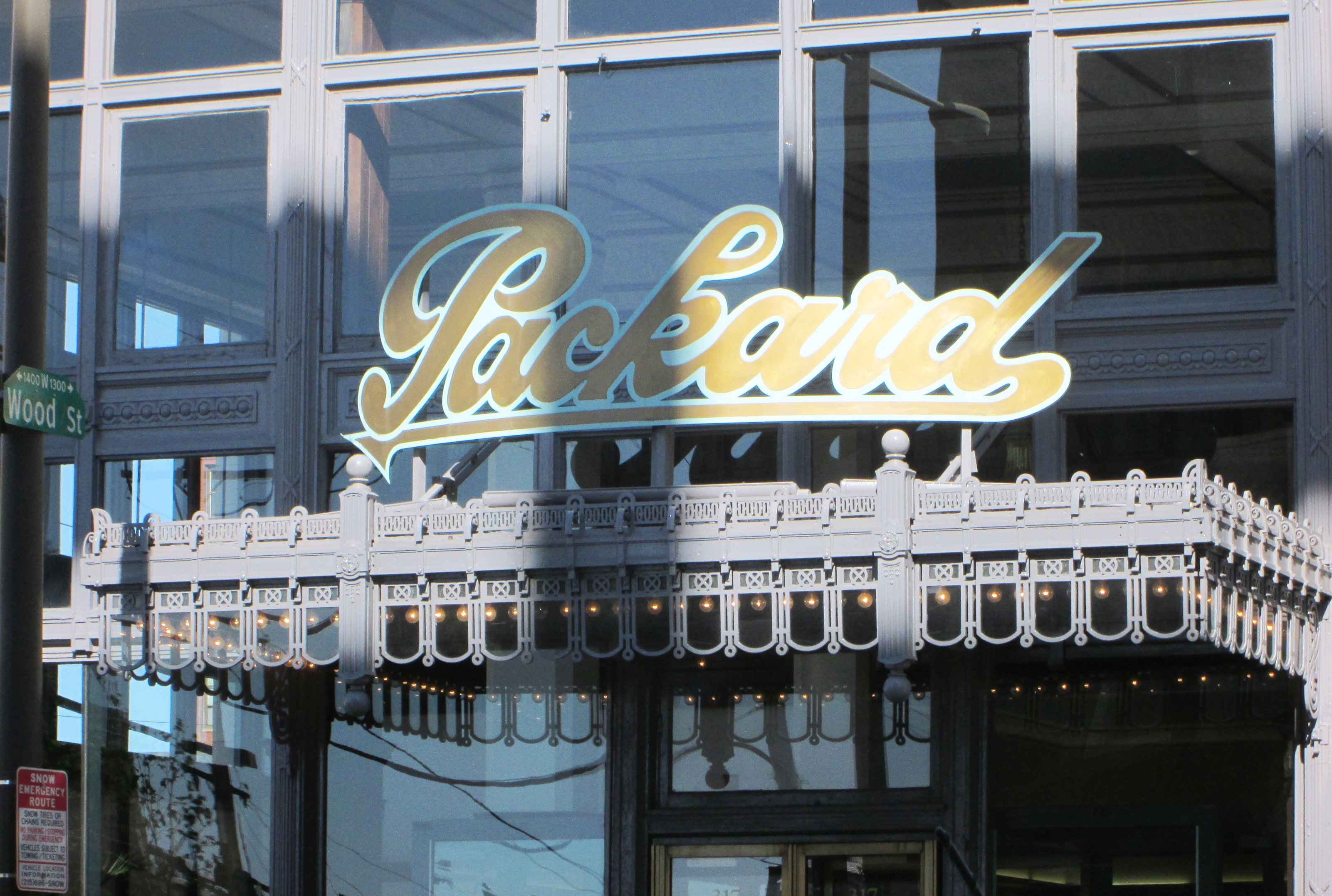 The Packard Motor Corporation Building, also known as the Press Building, at 317-32 N. Broad Street between Pearl and Wood Streets in the Center City of Philadelphia was built in 1910 and was designed by Albert Kahn of the firm of Kahn & Wilby. It was one of the first uses of reinforced concrete in a commercial building. The building was renovated in condominiums in 1986 by Bower Lewis Thrower and John Milner Associates. (Source: Philadelphia Architecture: A Guide to the City) It was listed on the National Register of Histroic Places in February 8, 1980 and is a contributing property of the Callowhill Industrial Historic District.